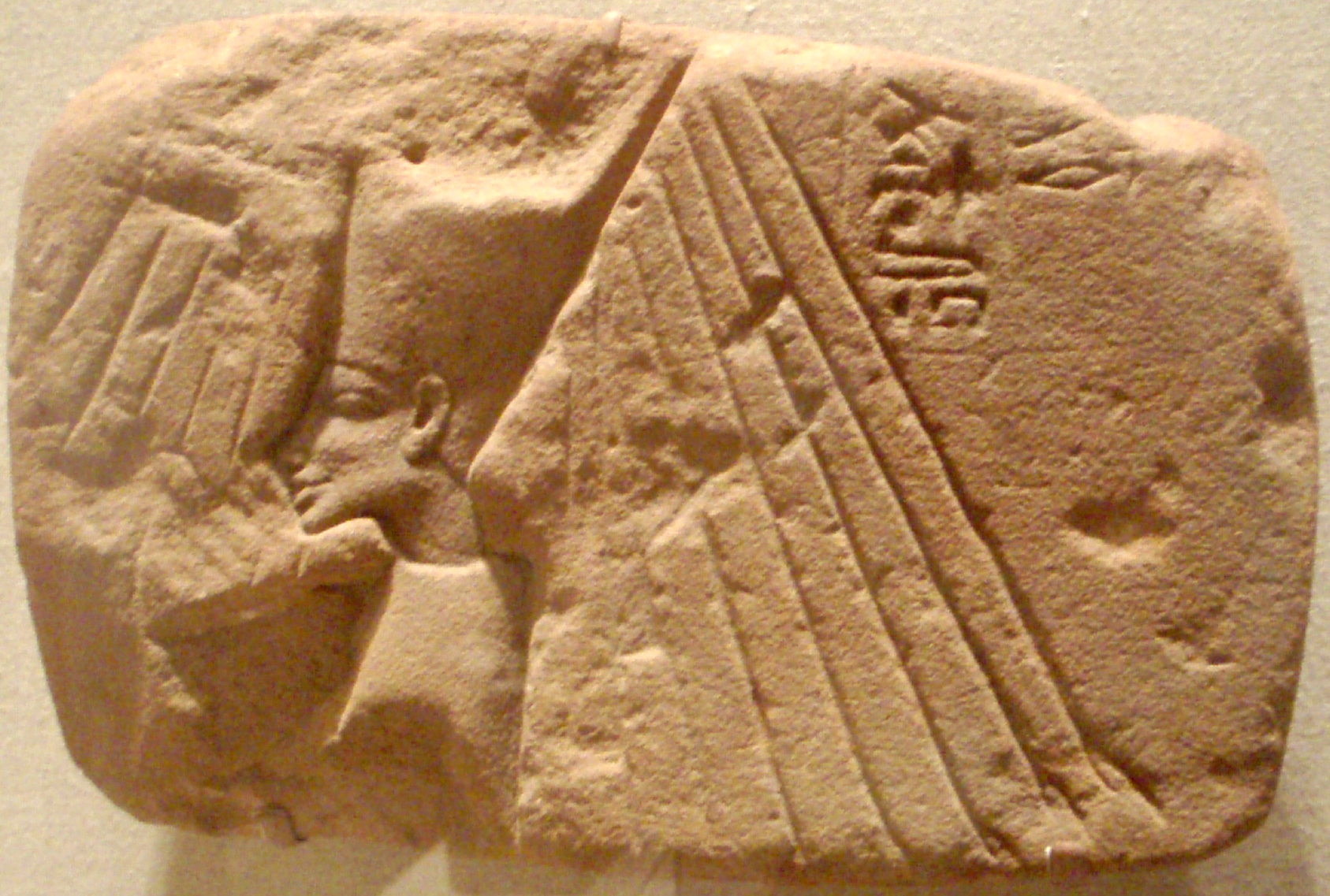 Amunhotep IV in a Sed Jubilee scene.